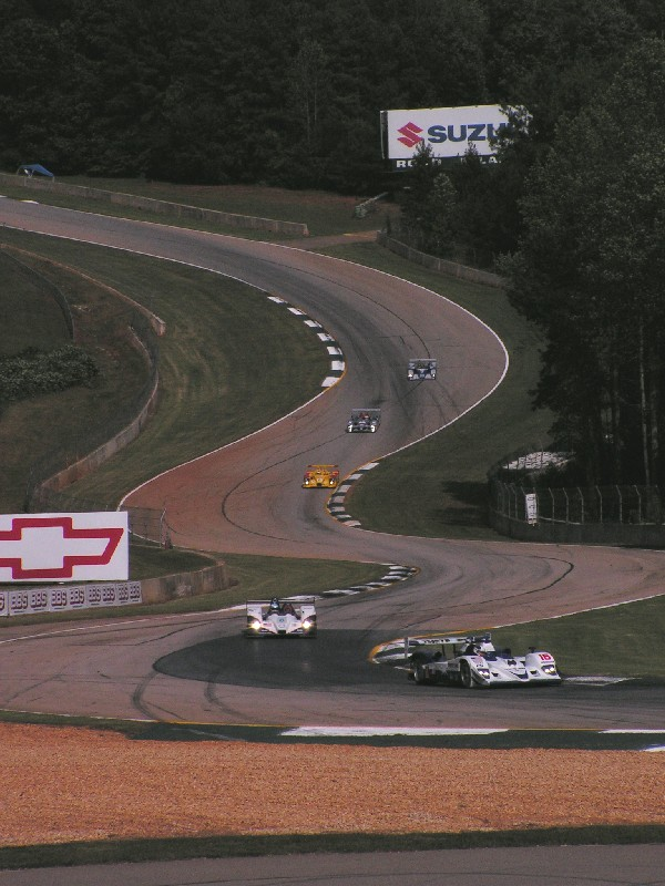 Taken by me on September 28, 2006.